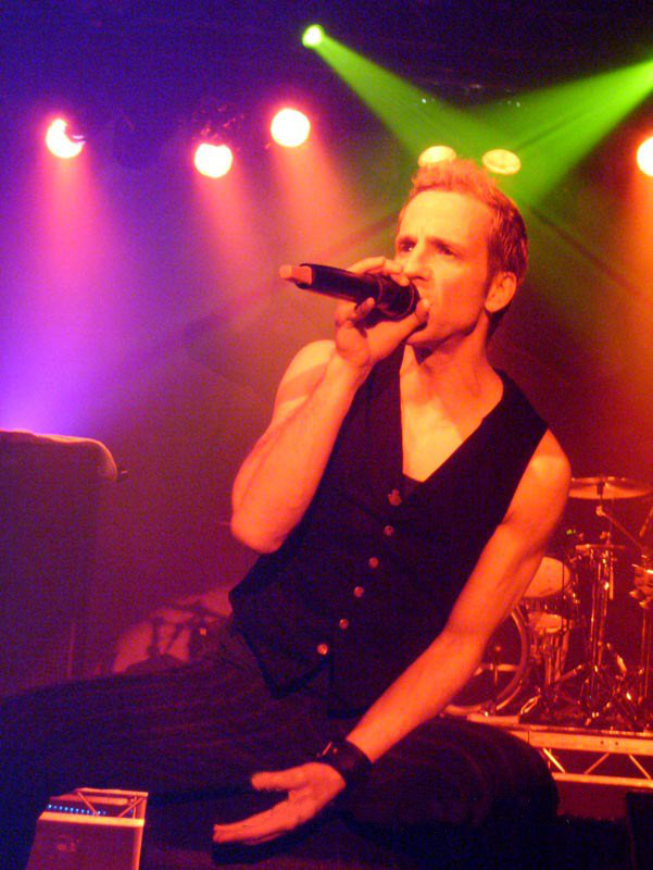 Gary Cherone - Extreme - Live in Birmingham 2008